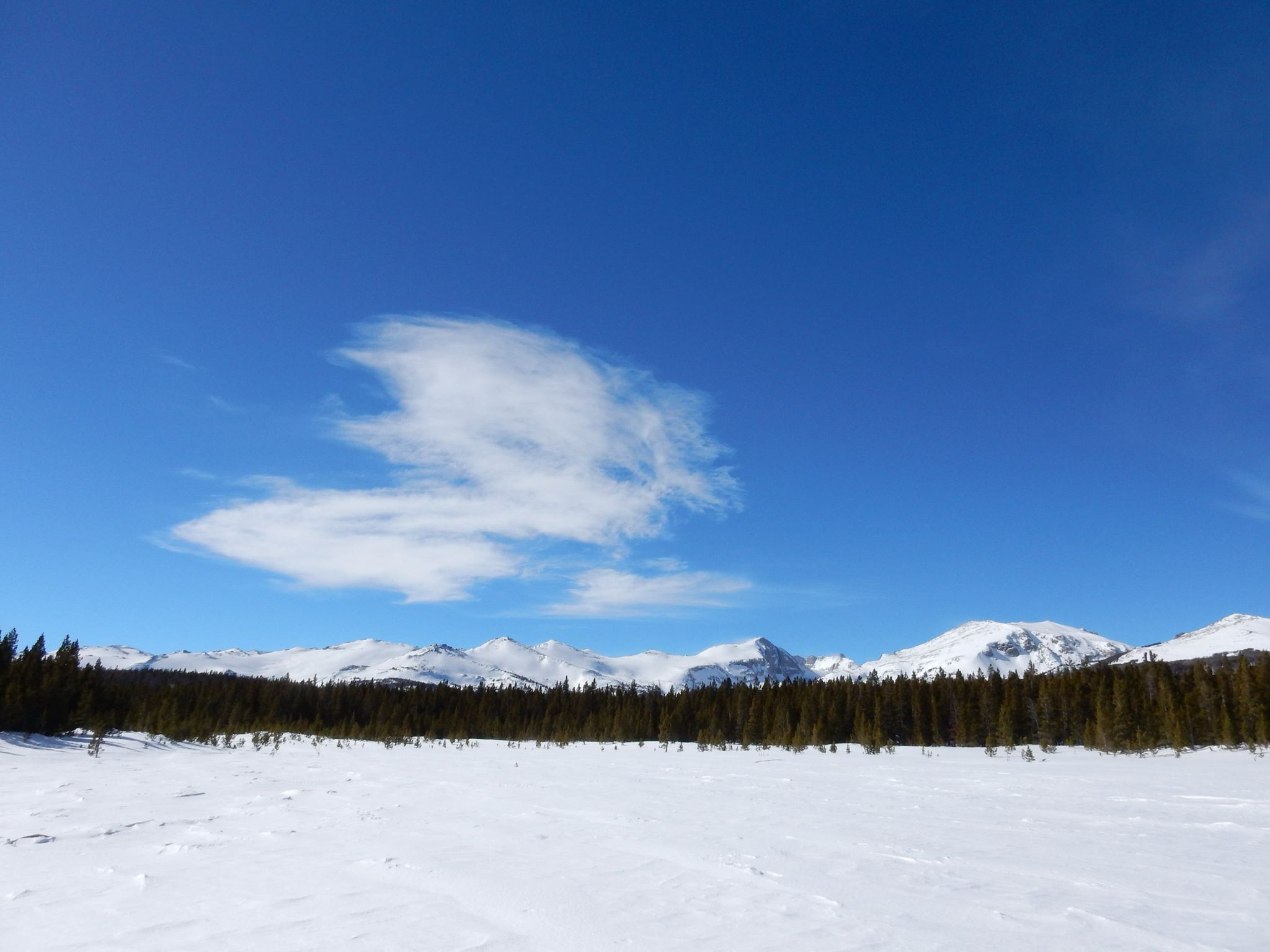 This beautiful shot of Atlantic Peak in the Popo Agie Wilderness was take two weeks ago by our South Zone Rangeland Management Specialist Michelle Buzalsky